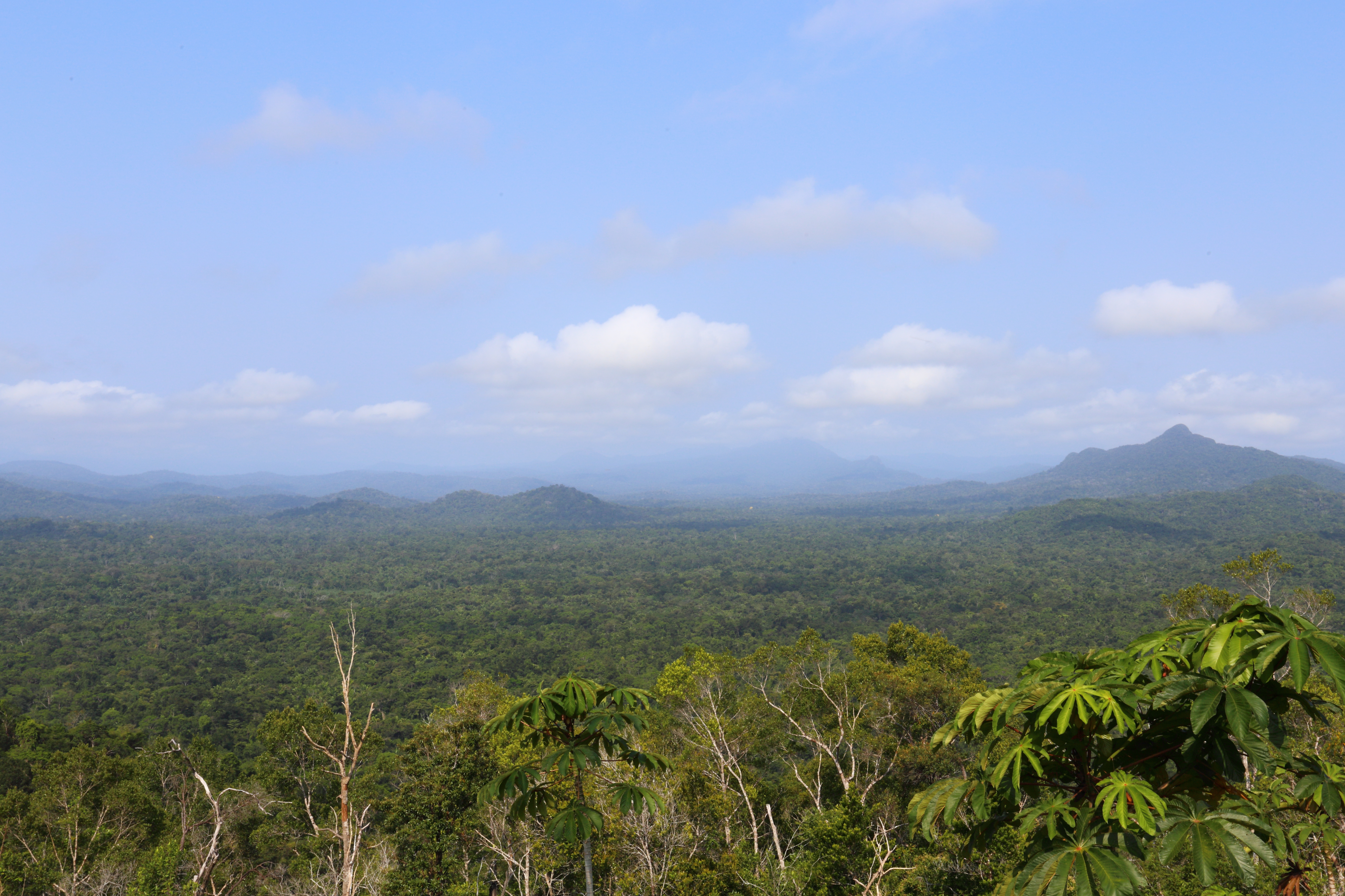 Lookout on Tiger Fern Trail, Cockscomb Basin Wildlife Sanctuary, Belize